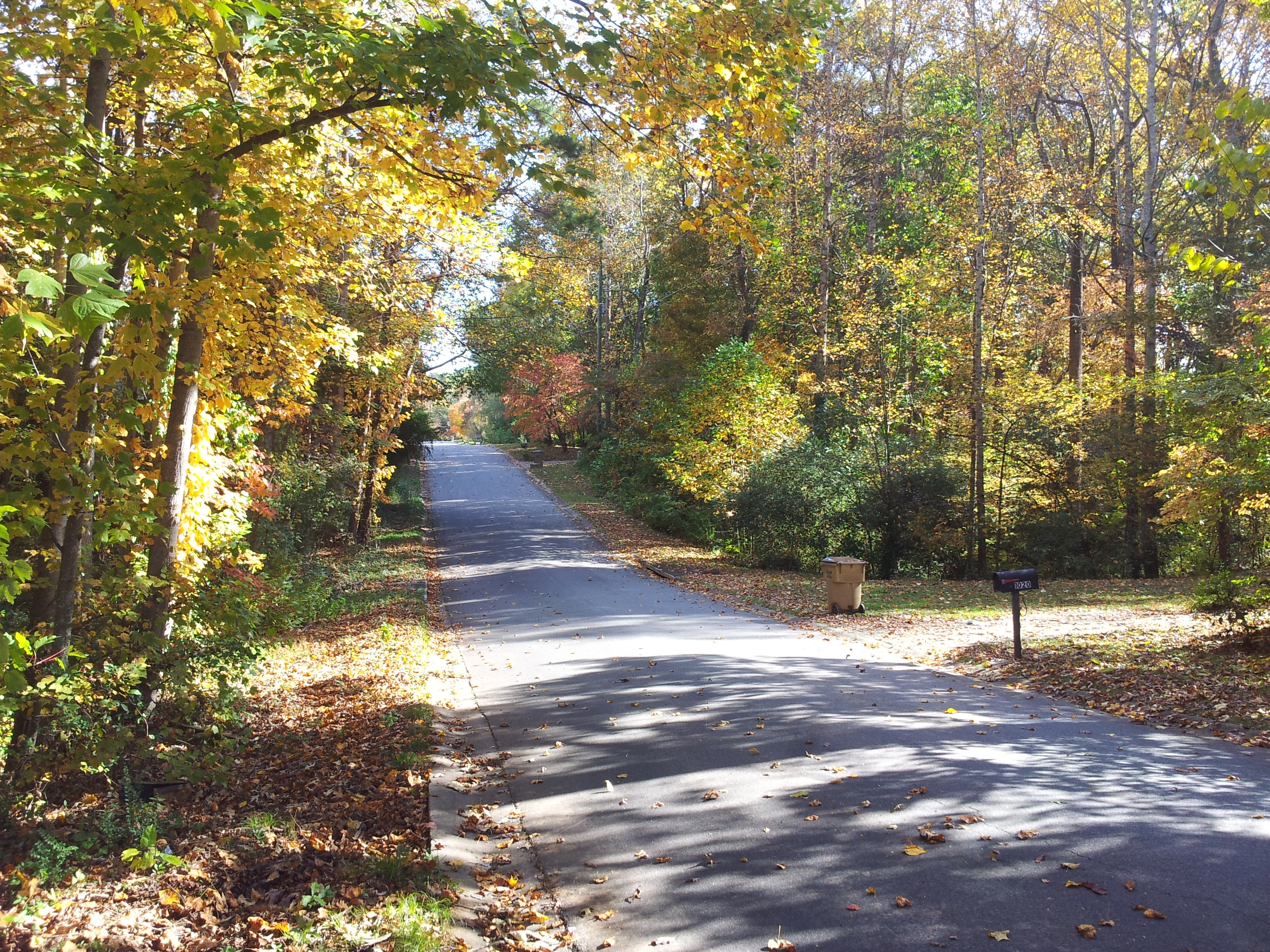 This is from the area of Kings Ridge Estates in Woodstock, GA (USA).